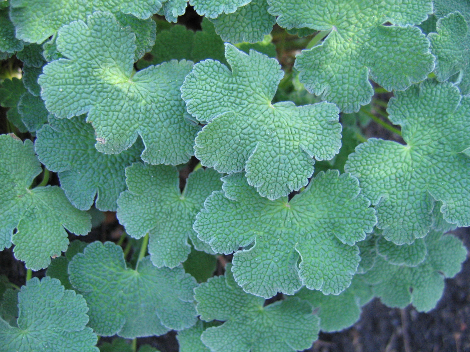 Geranium renardii cultivated in Wrocław University Botanical Garden, Wrocław, Poland.